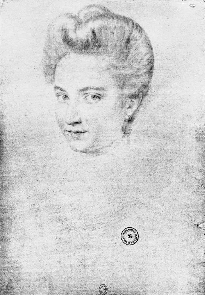 Portrait of Gabrielle d'Estrées